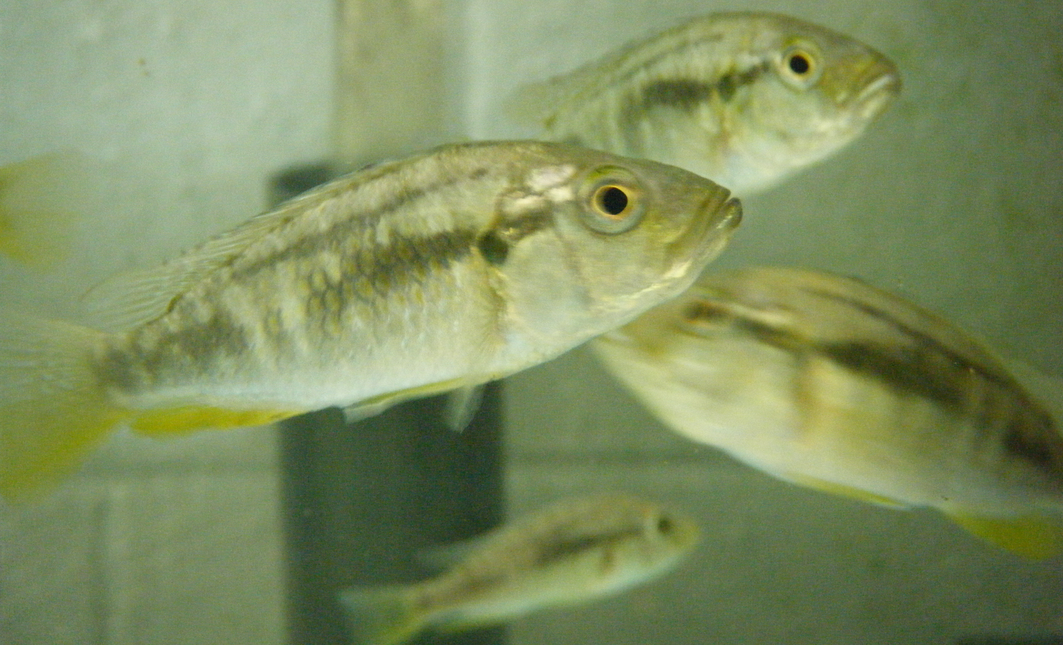 Astatotilapia calliptera, wild caught females from Lake Chilingali